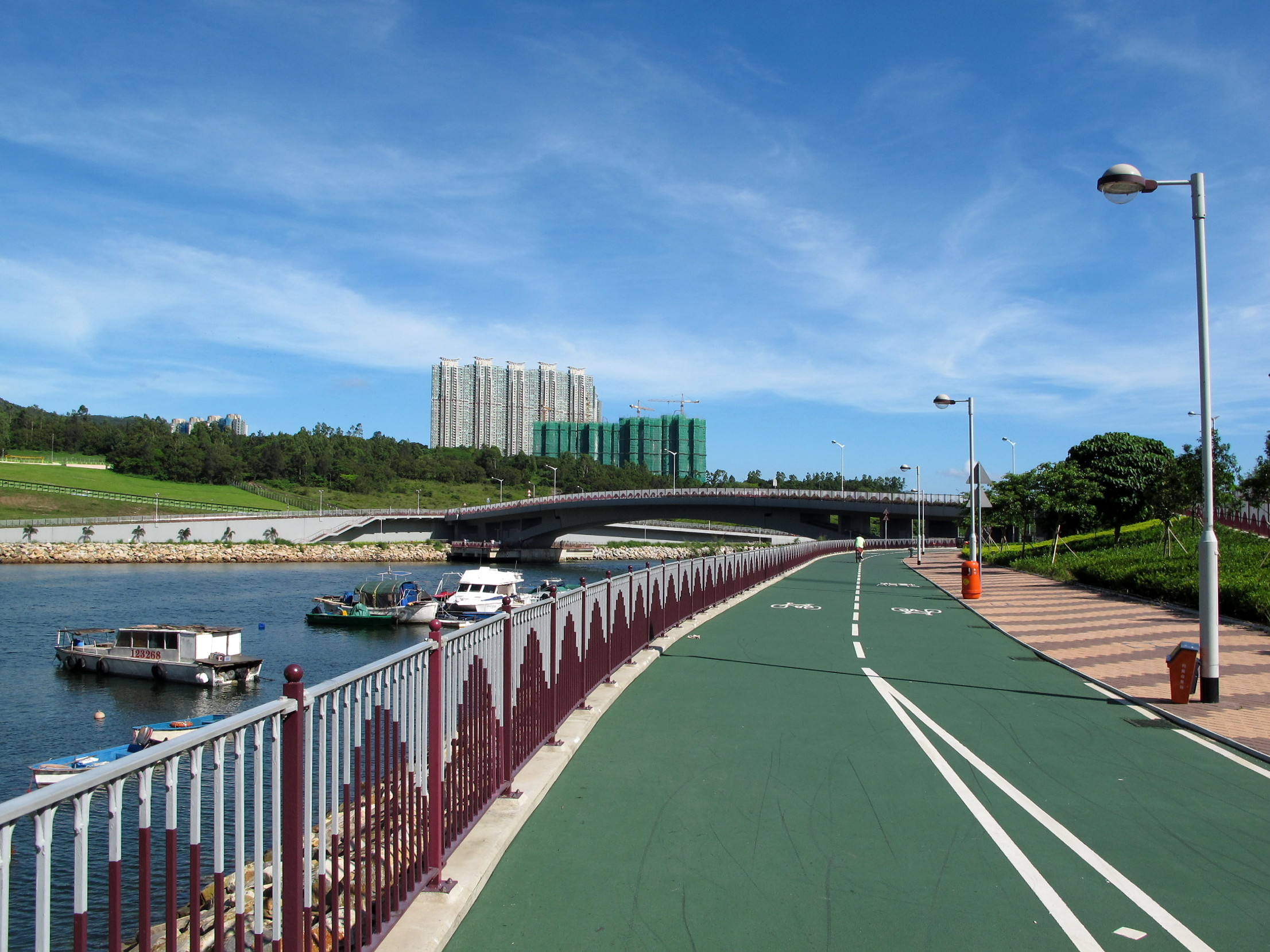 Tseung Kwan O South Waterfront Promenade Bridge